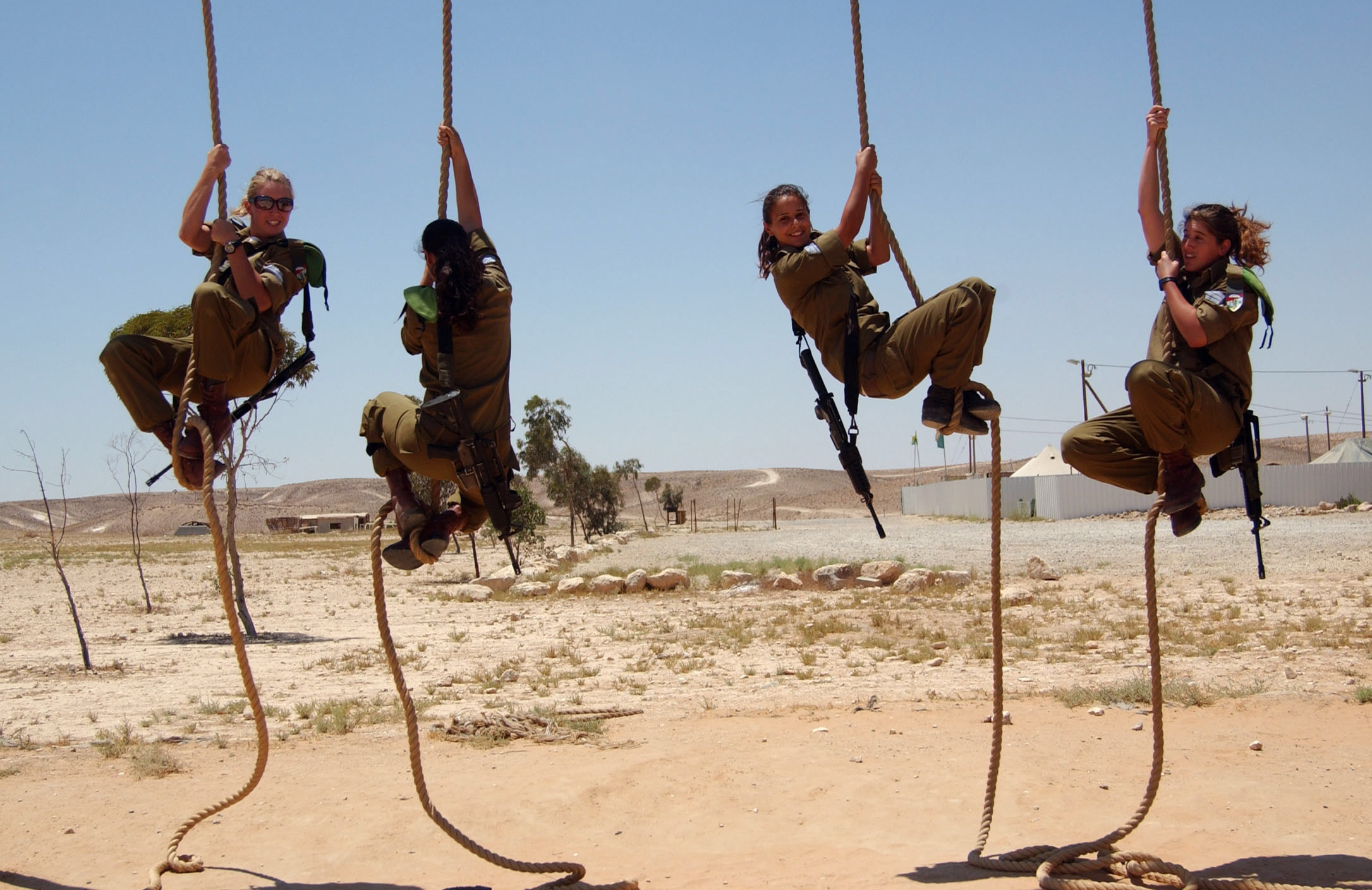 July 17, 2007 These four soldiers constitute the largest number of female soldiers ever to simultaneously graduate the Warrant Officers' Course for the Infantry Corps. The four girls will go back to serve as commanders in their respective brigades. Photo by the IDF Spokesperson Unit. Featured as photo of the day on September 13, 2011. The Israel Defense Forces Facebook page The Israel Defense Forces blog Follow us on Twitter ארבע חיילות אלו מהוות את מספר הבנות הגדול ביותר אשר סיימו את קורס רב-סמל בחיל הרגלי. ארבע הבנות תחזורנה לשרת במפקדות, כל אחת בחטיבה שלה.